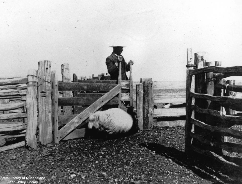 Sheep being drafted into sheep pens on Isis Downs Station, Blackall, Queensland, 1900-1910 Drafting sheep in sheep pens on Isis Downs Station in the Blackall District.